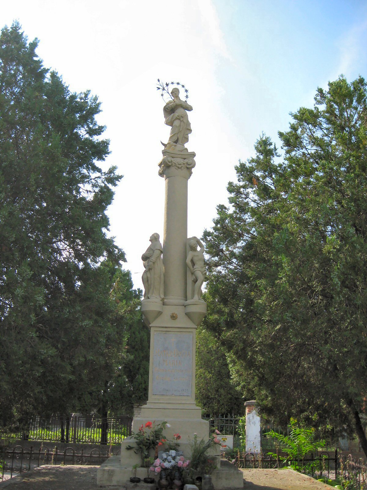 Statue of Blessed Virgin in Šurany, Slovakia.